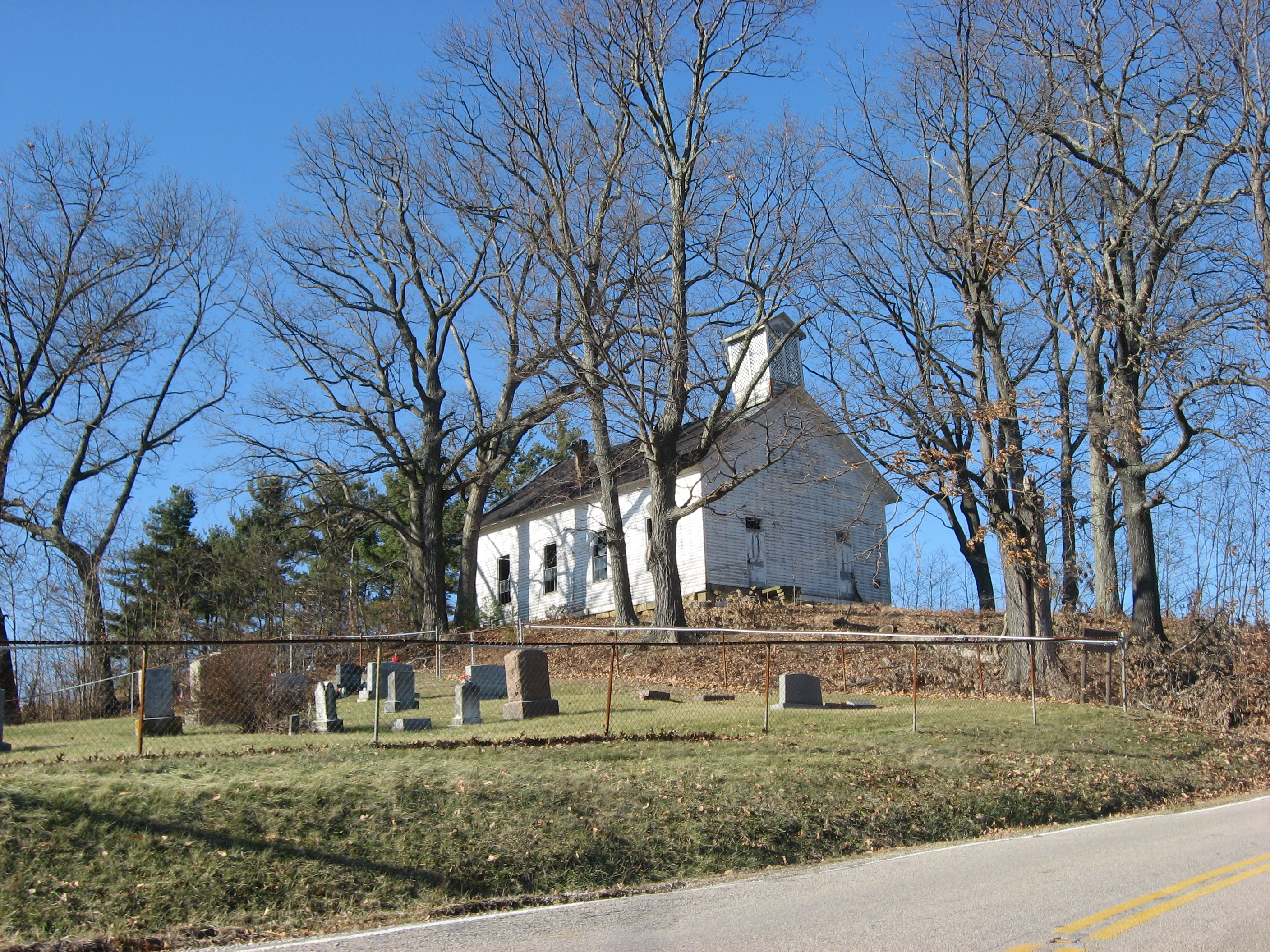 Front and southern side of the former Pleasant Hill Methodist Church, located at the junction of State Route 555 and Steffy Hambel Lane northwest of Chesterhill in Homer Township, Morgan County, Ohio, United States. It was built in 1889.